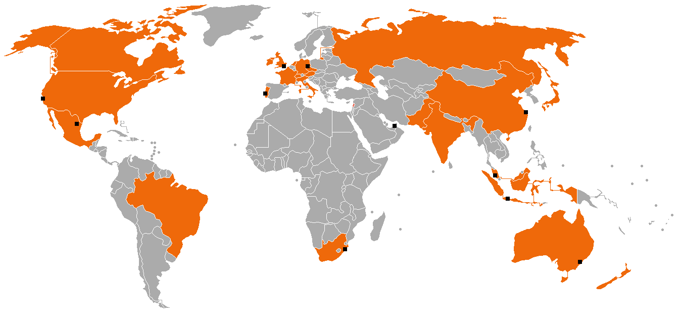 Countries which competed in the 2005-06 A1 Grand Prix season (orange) with the locations of the race shown as black squares